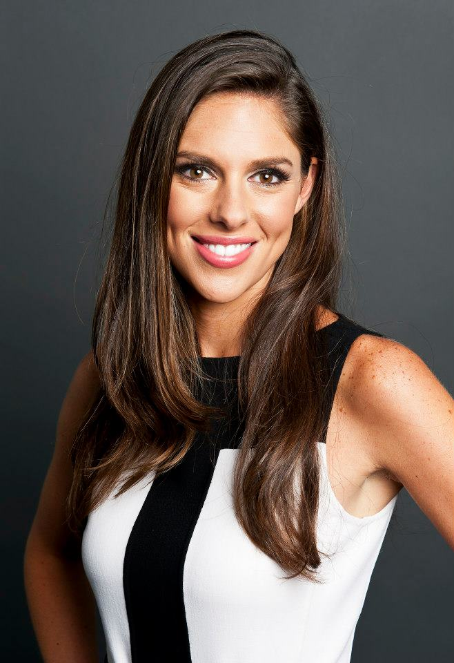 Headshot of Abby Huntsman, Host/Producer of HuffPost Live and daughter of presidential candidate John Huntsman Jr.